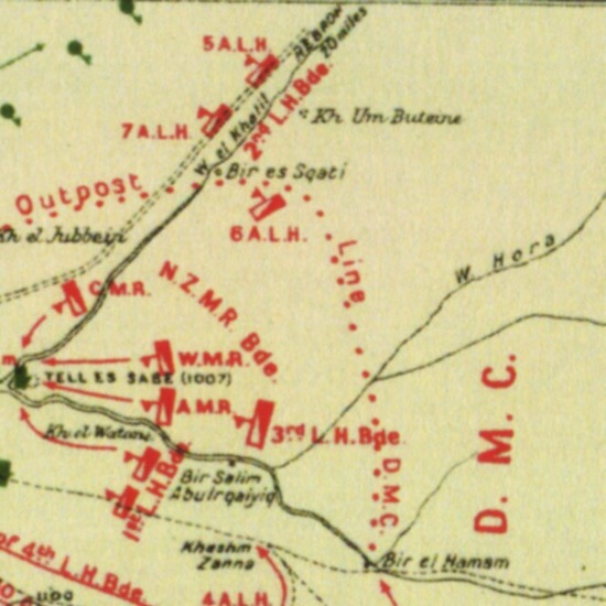 Detail of Falls Sketch Map 3 of the capture of Beersheba